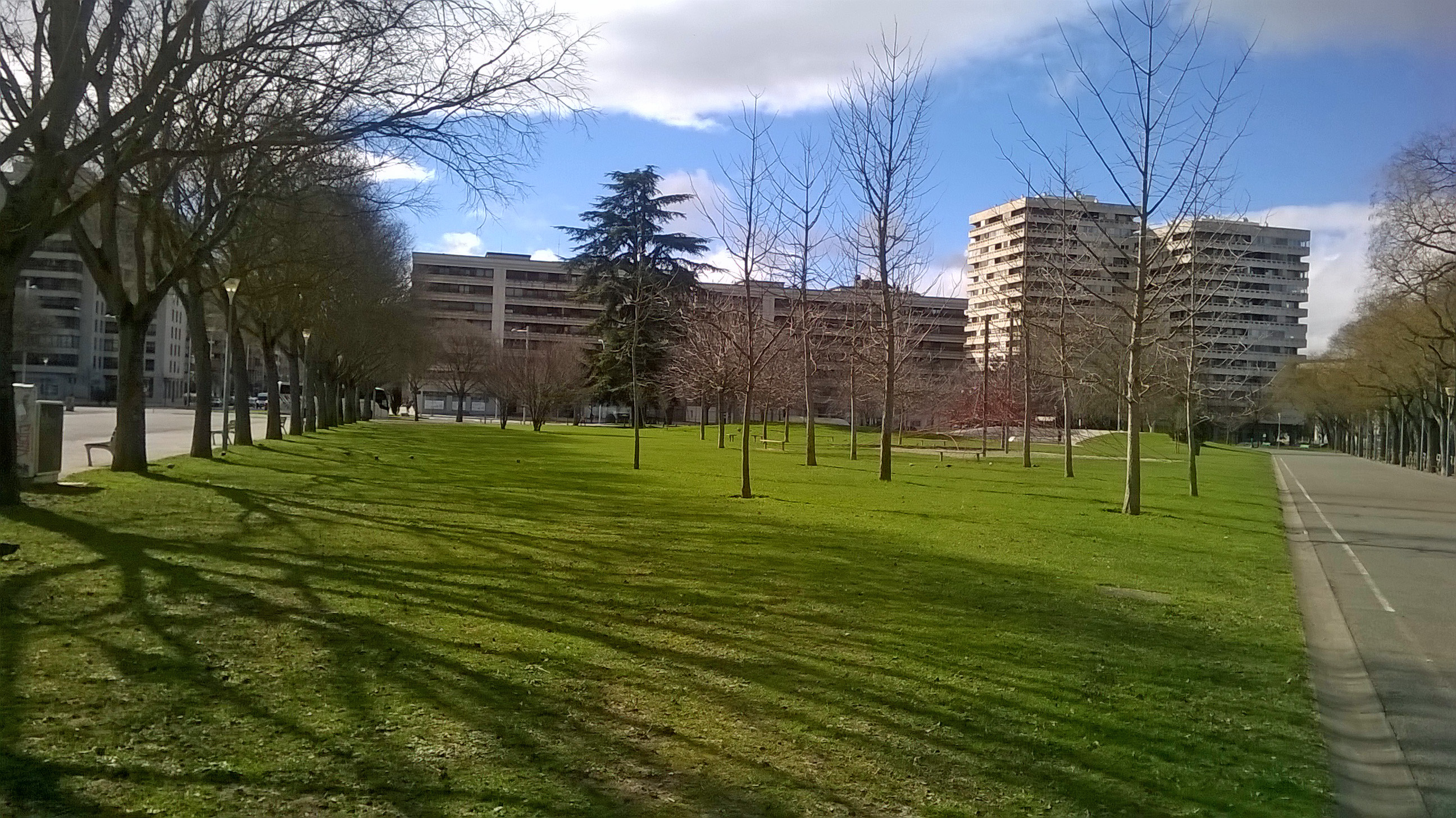 Antoniutti park, Iruñea-Pamplona, Navarr, Basque Country.